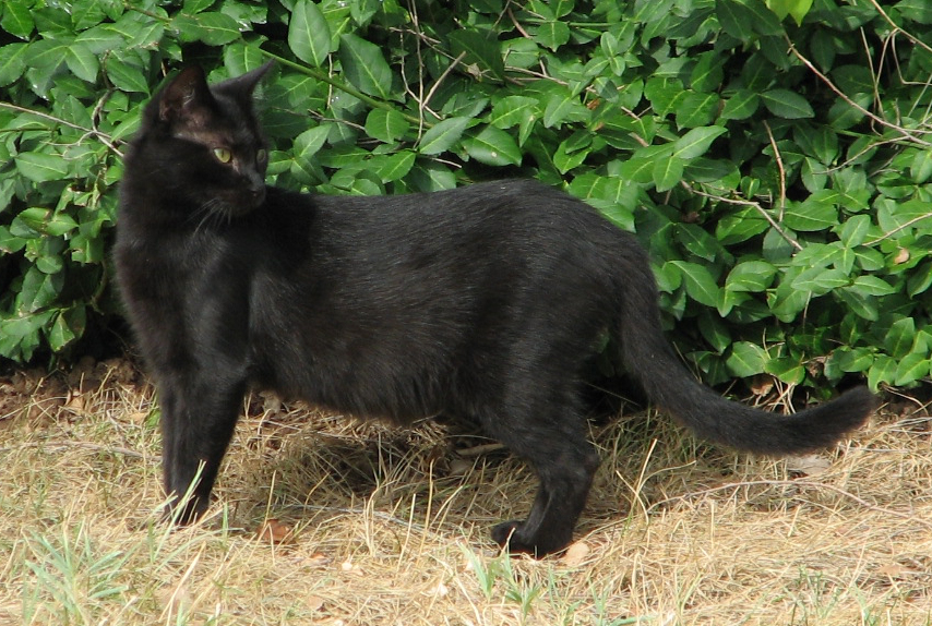 A black cat, feral, female, in Springfield, Missouri, USA